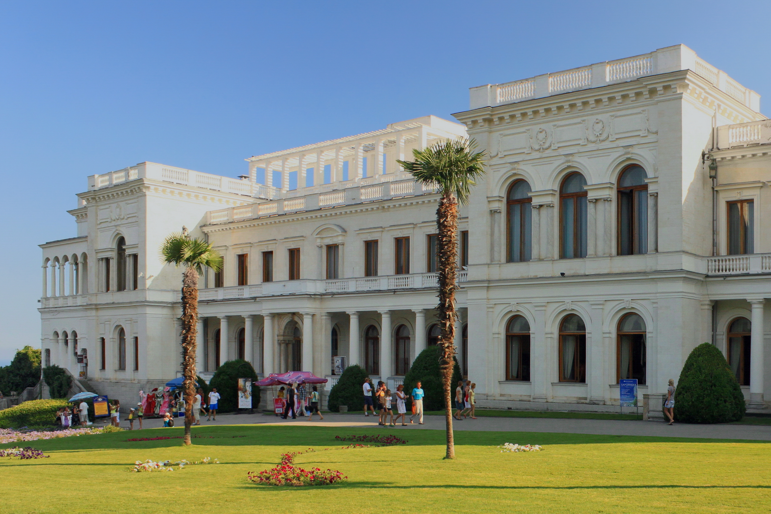 Livadia Palace. Livadiya, Crimea